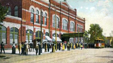 In 1890 the Duquesne Gardens opened in Pittsburgh, Pennsylvania.